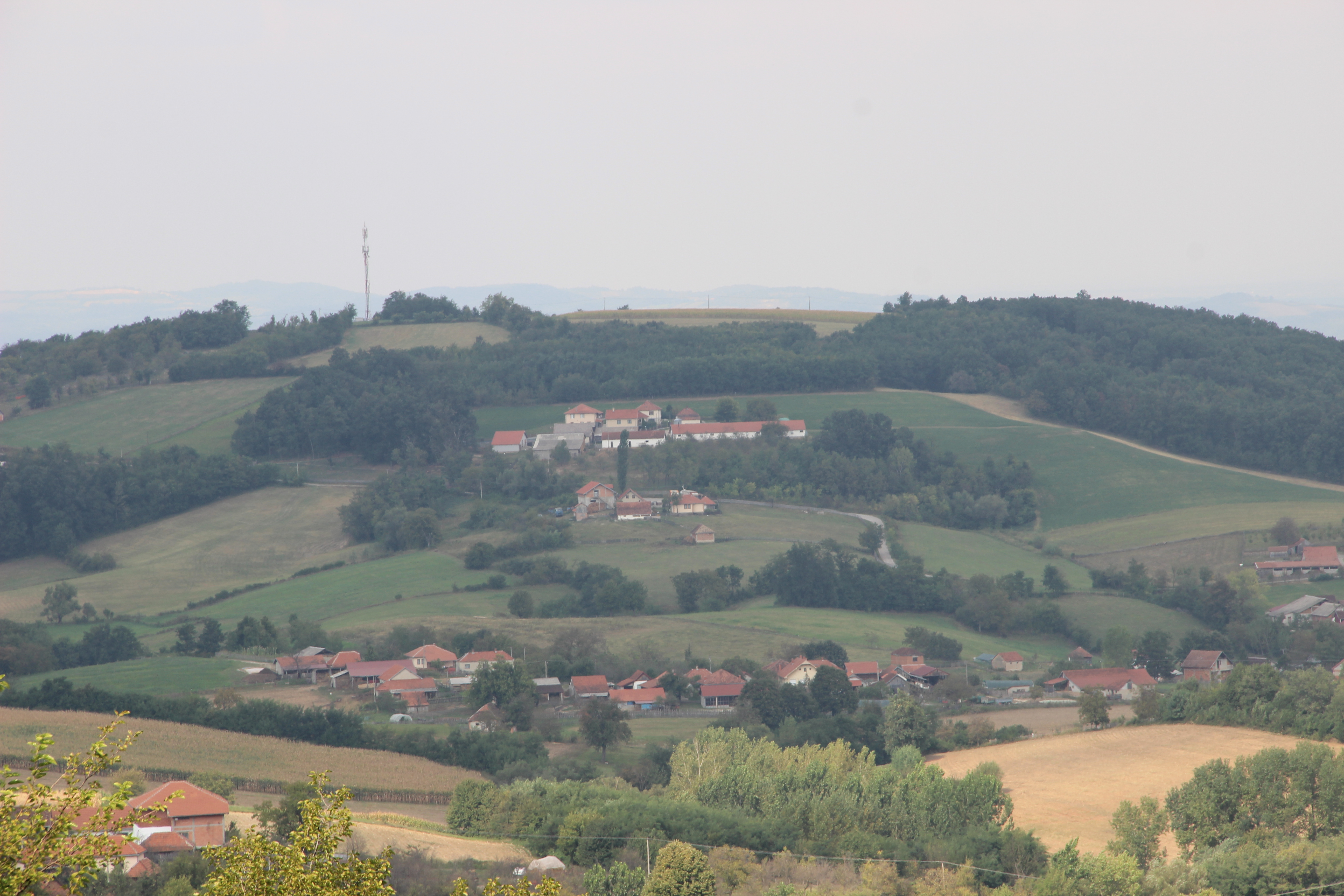 Osecenica village - Municipality of Mionica - Western Serbia - Panorama 6